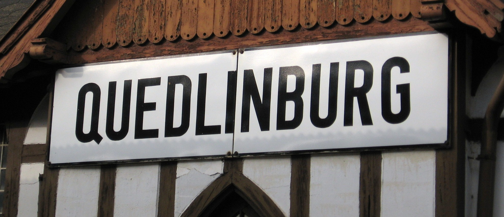 Train station Quedlinburg in Saxony-Anhalt/Germany, on the building of "Areal B" at platform 1